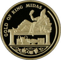 Coin of Kazakhstan